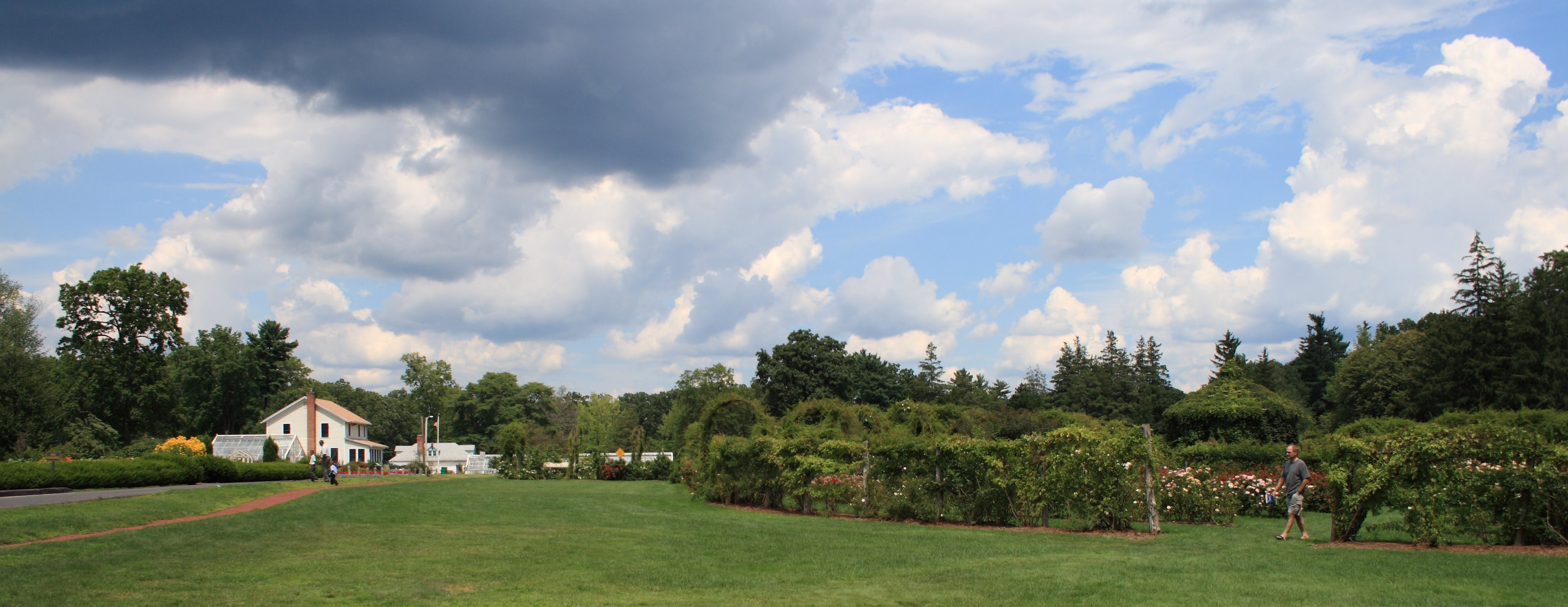 The Rose Garden at Elizabeth Park in West Hartford Connecticut, with the greenhouse in the background on the left